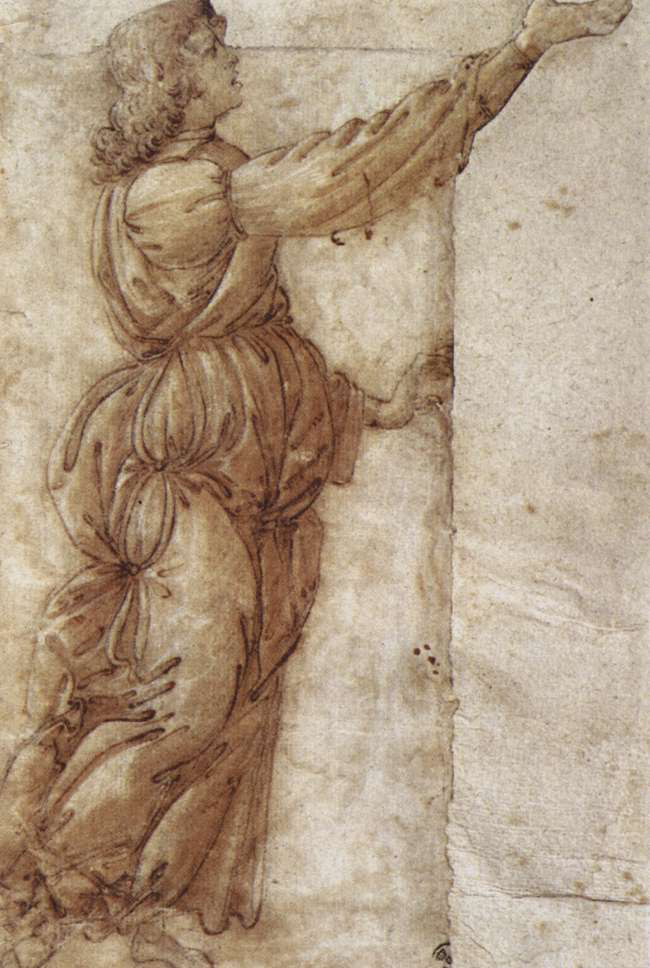 BOTTICELLI, Sandro Angel Chalk, traced with pen, washed and heightened with white, 266 x 165 mm Galleria degli Uffizi, Florence